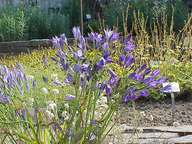 Species: Triteleia laxa Family: Liliaceae Image No. 2